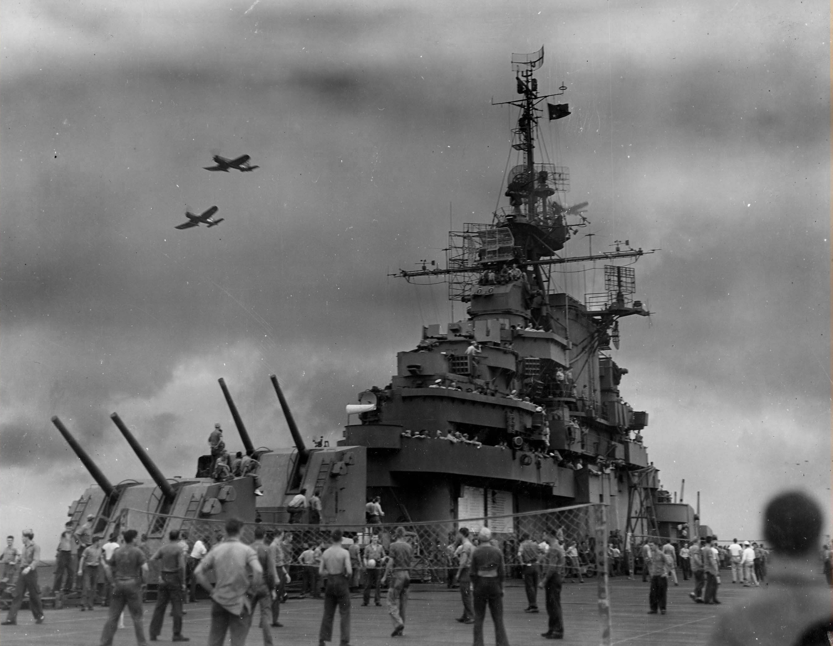 U.S. Navy sailors play volleyball on the flight deck of the aircraft carrier USS Wasp (CV-18), 1945. Three Vought F4U Corsair fighters fly over the carrier. The photo was taken after her refit which ended in June 1945.